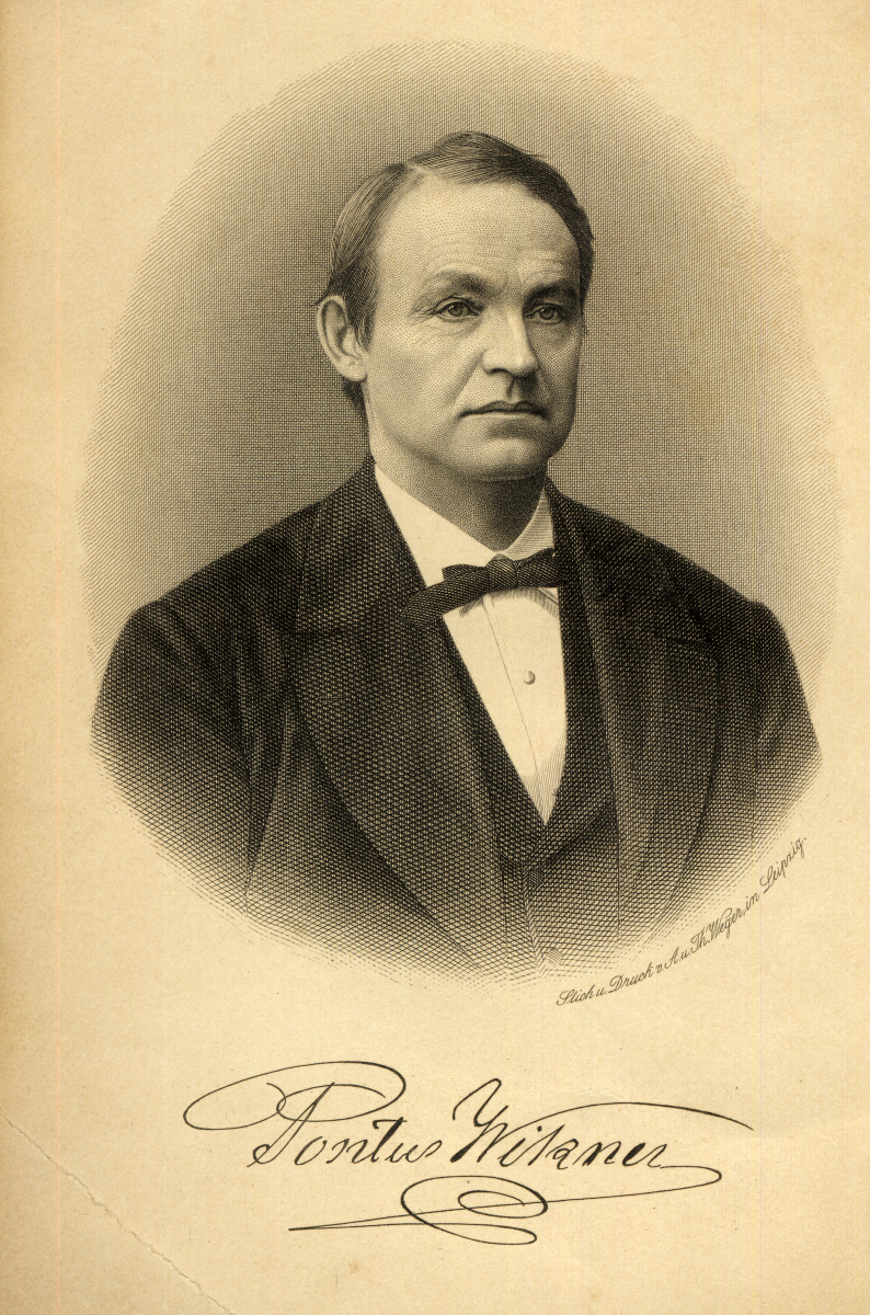 Carl Pontus Wikner, from "Tanker og Spørgesmaal for Menneskerns Søns Aasyn" by Sofus Thormodsæter, Kristiania, 1889.